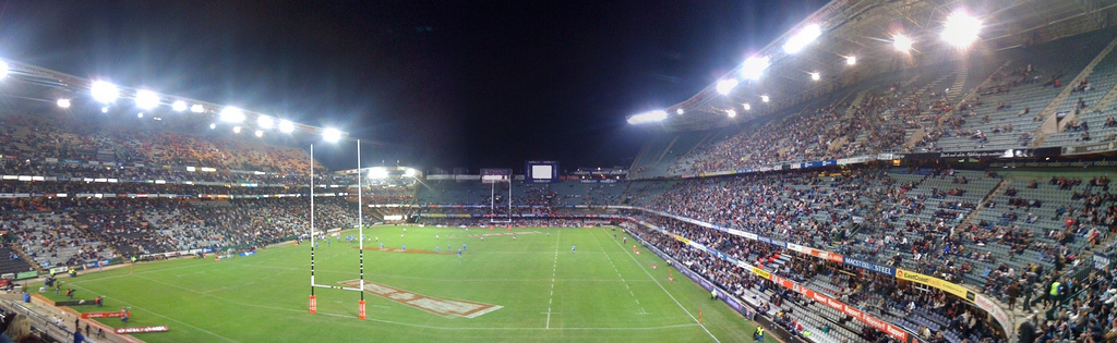 Pano photo taken at Kings Park on 24/7/09 - Sharks vs Bulls South Stand